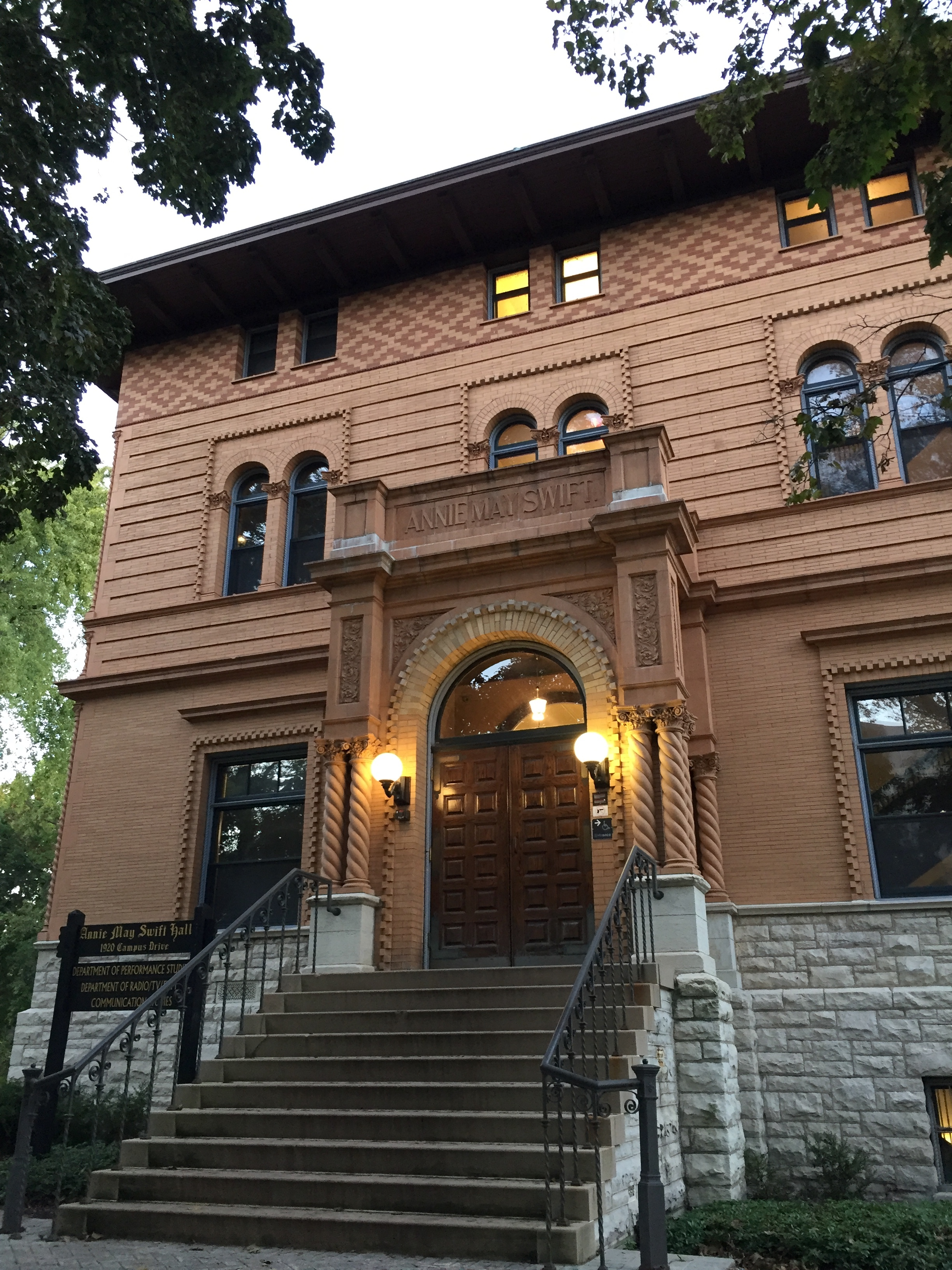 Annie May Swift Hall at Northwestern University in Evanston, Illinois